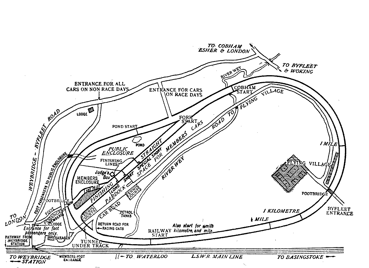 Brooklands map (Autocar Handbook, Ninth edition)